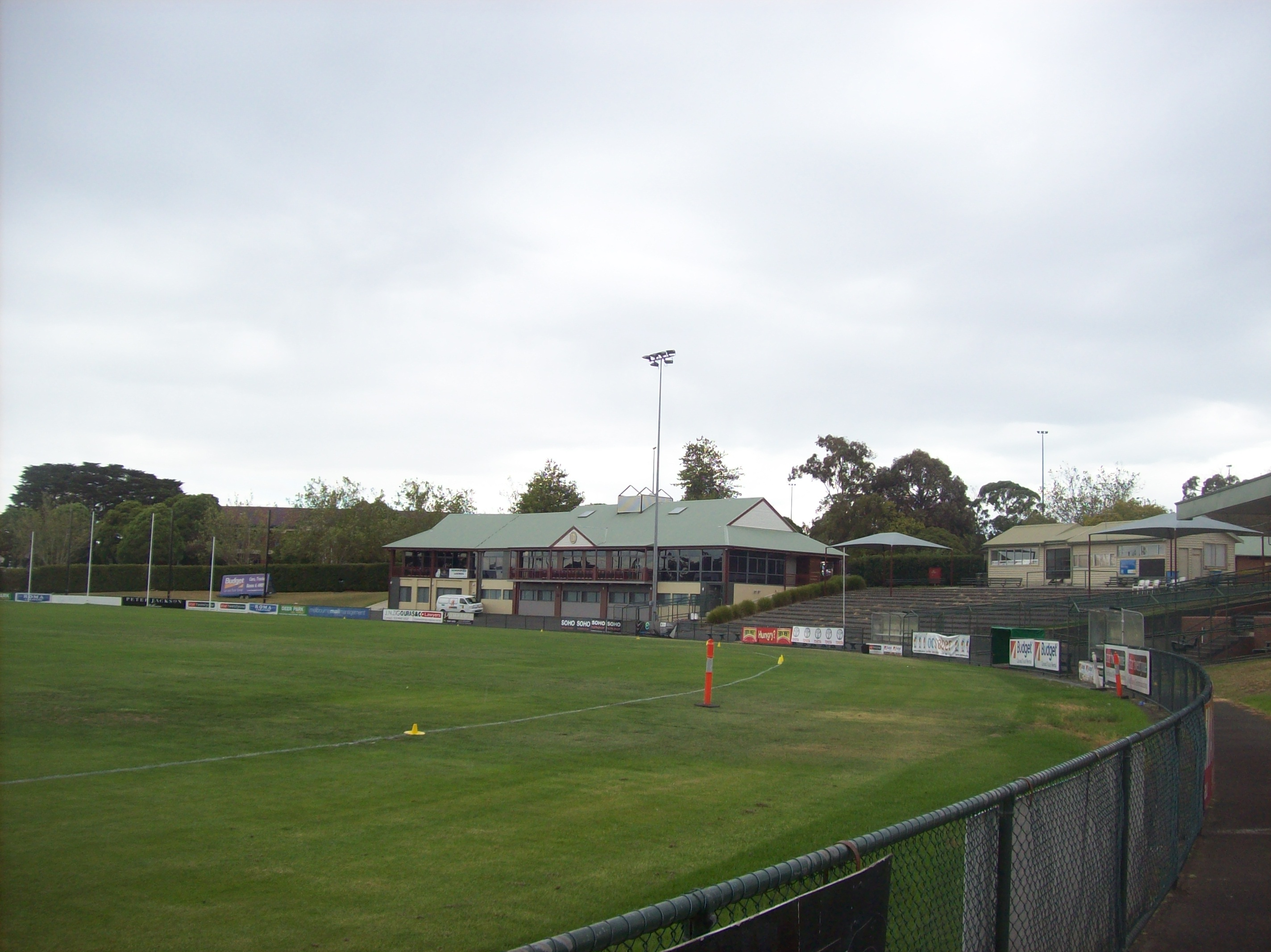 Box Hill City Oval, showing one pavilion and the terracing, taken from the north-western flank.